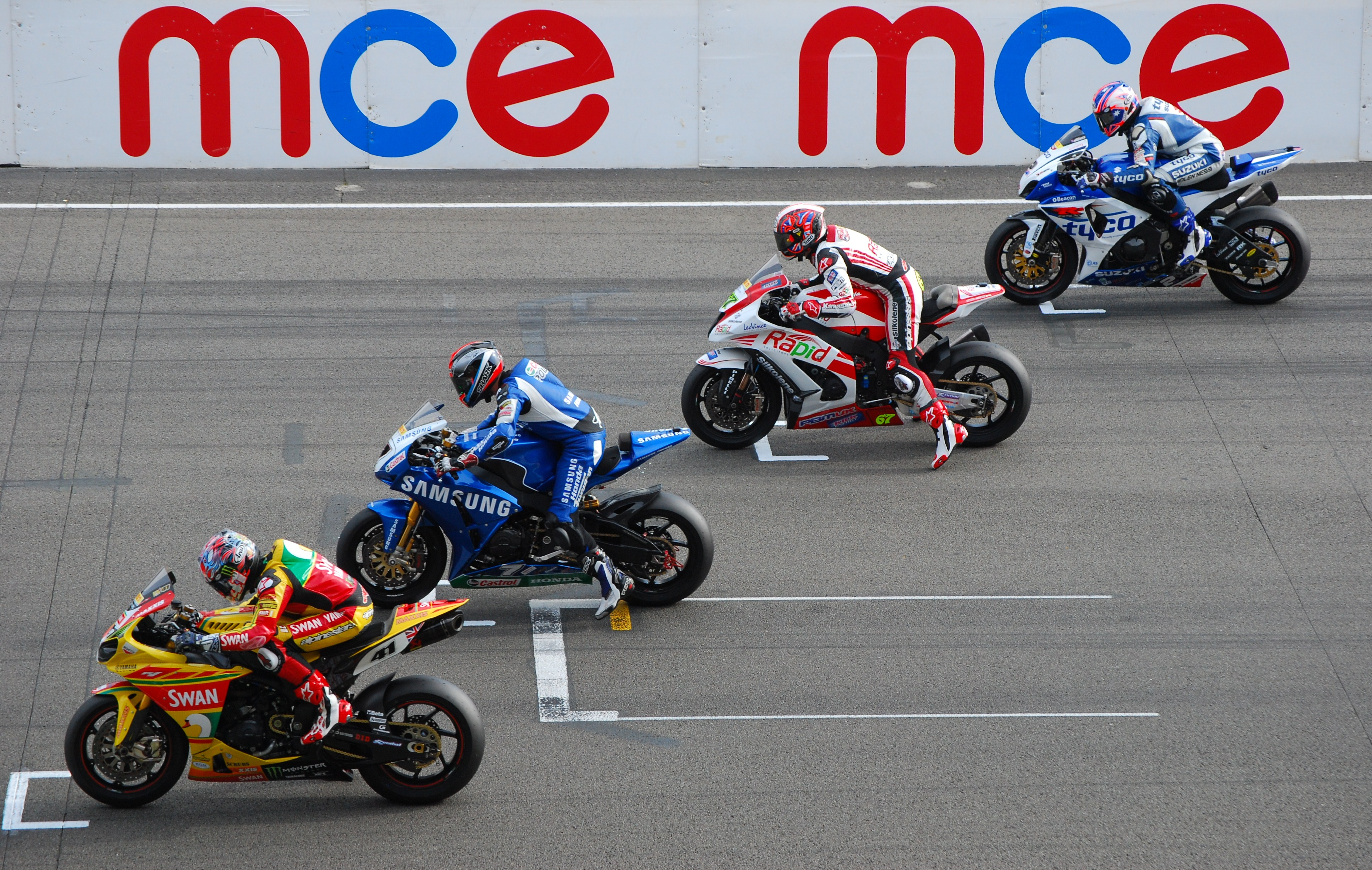 Taken as the lights went out - this shows what a poor start Nori Haga (pole) got compared to Michael Laverty, Shakey Byrne and Josh Brookes behind him. Haga was in third place by the first corner.